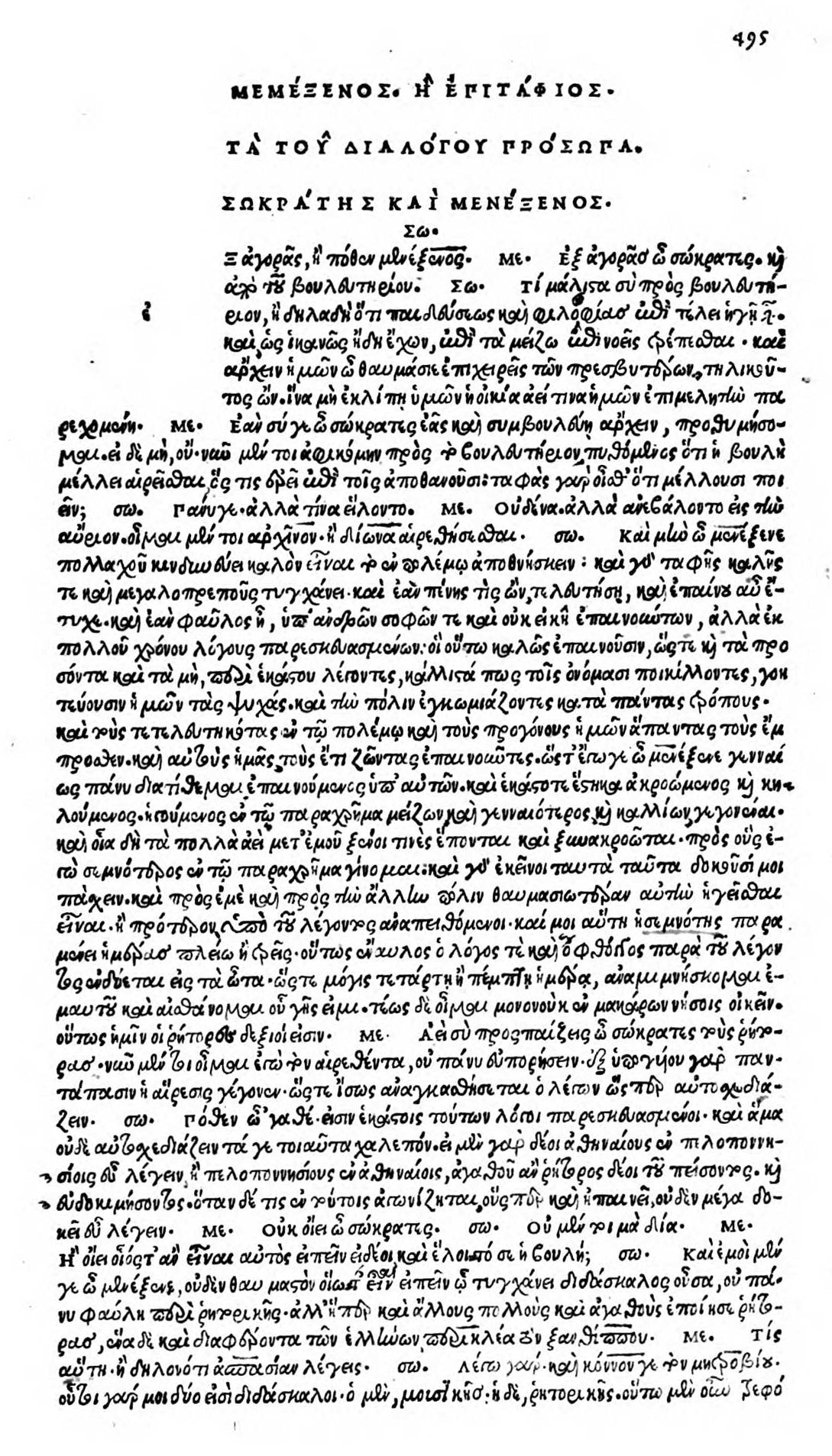 Menexenos beginning. Editio princeps, Venice 1513.